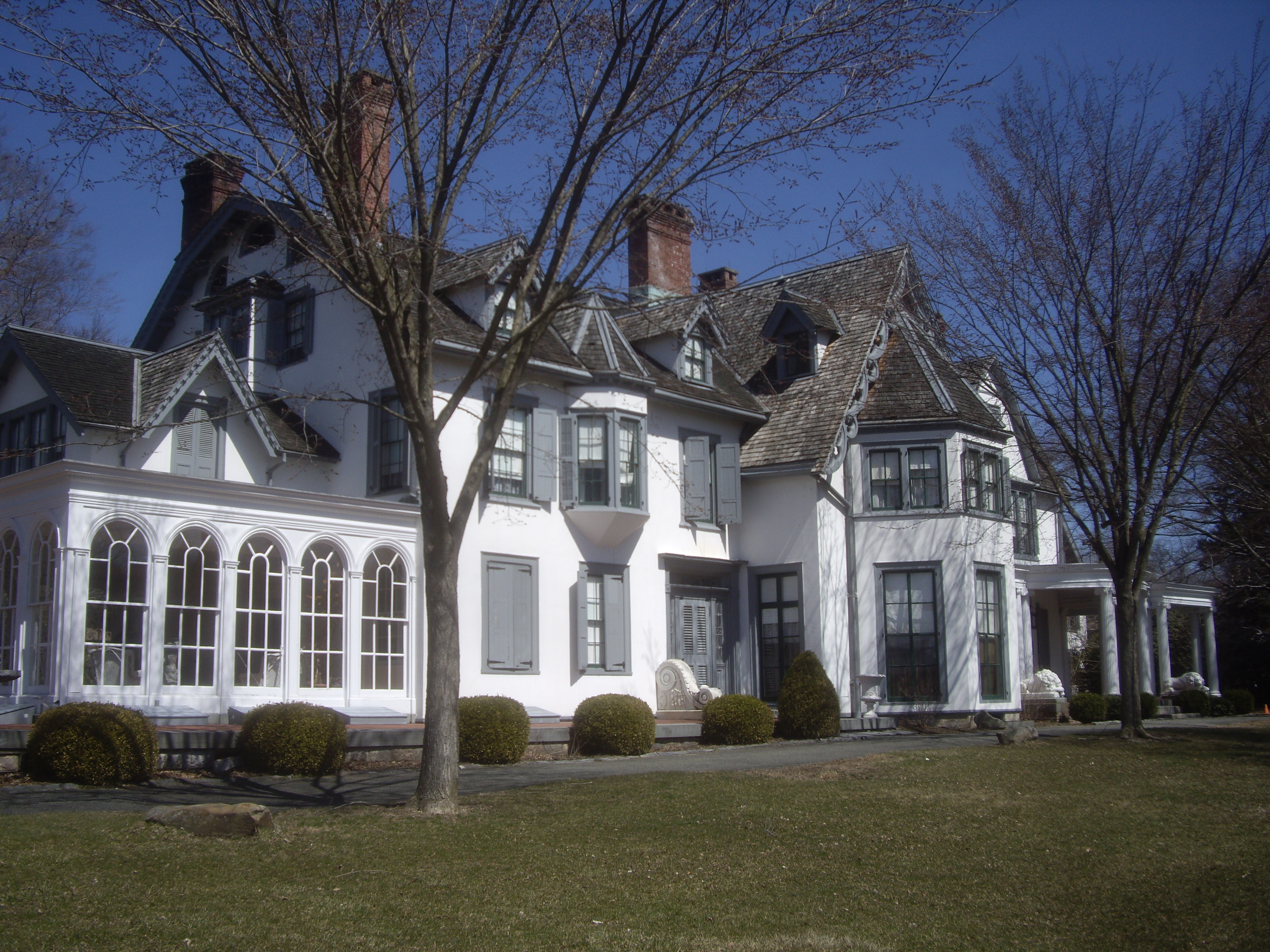 View of Ringwood Manor, Ringwood, New Jersey. Built c. 1810